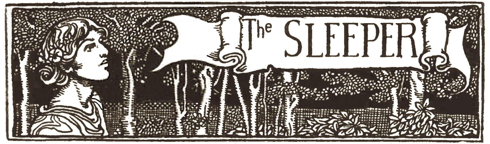 Illustration to a poem by poe published 1900